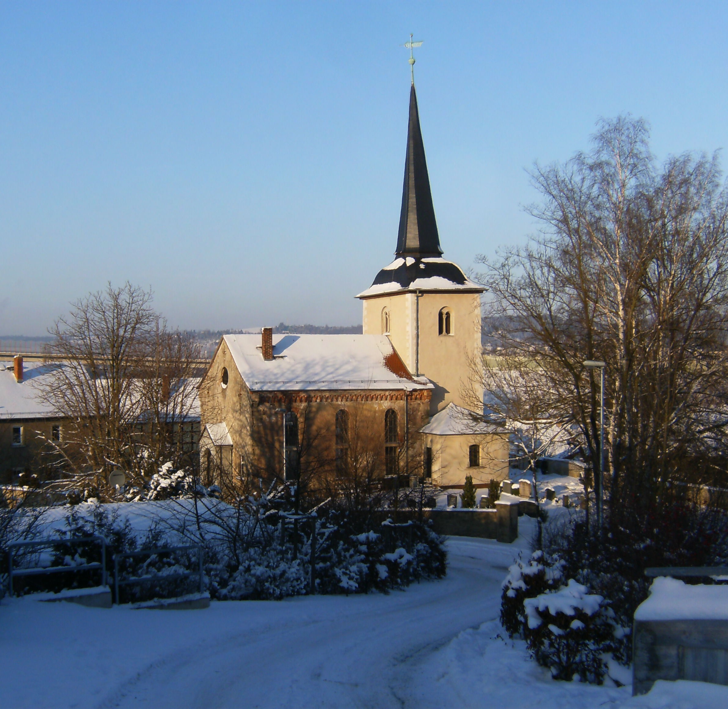 Gera-Thieschitz, Thuringia, church in winter 2009.